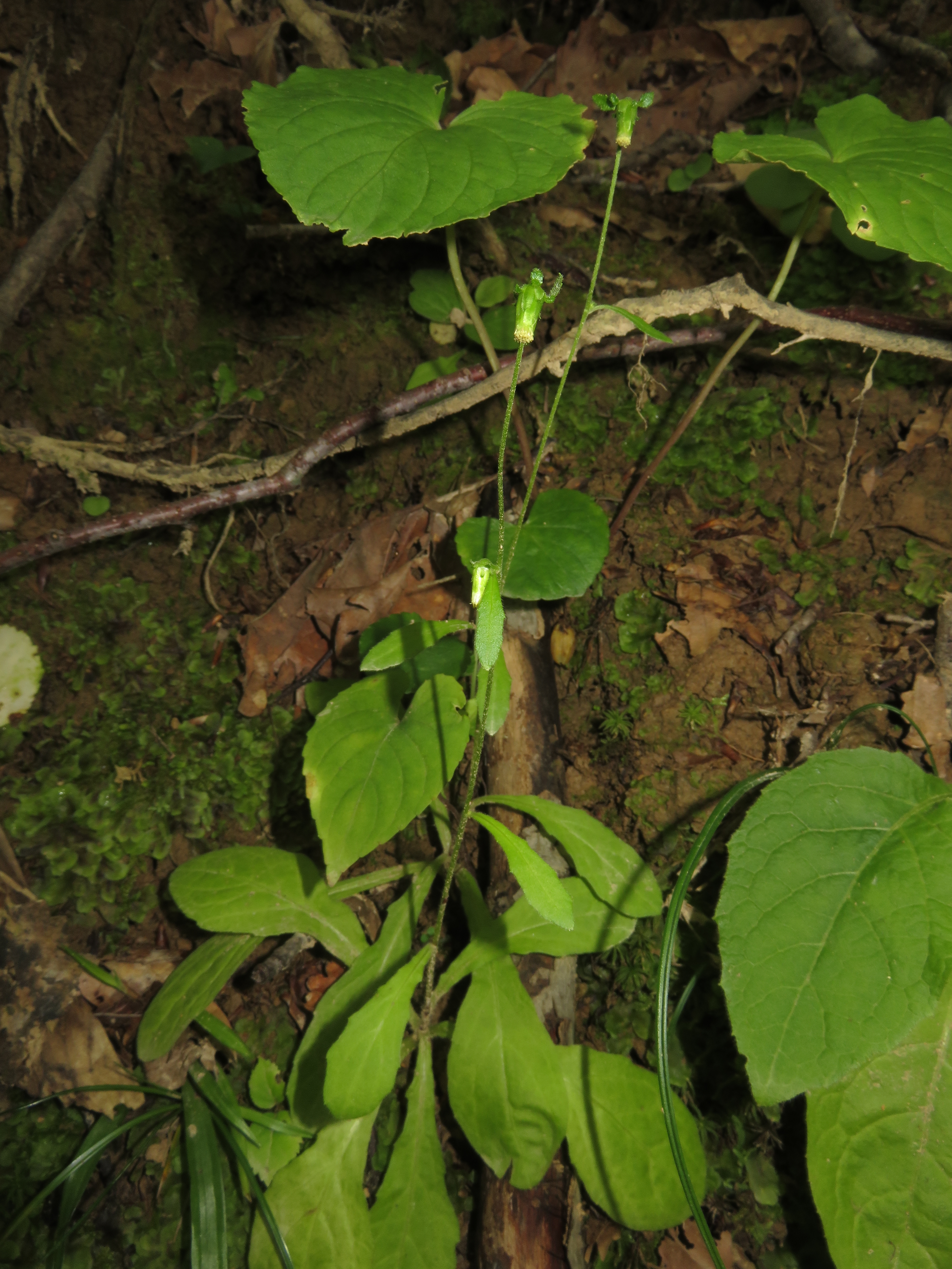 Carpesium rosulatum, Tsugaru area, Aomori pref., Japan